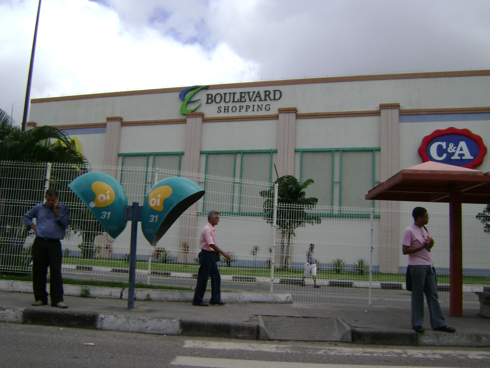 Fachada do Boulevard Shopping, em Feira de Santana, Bahia, Brasil.